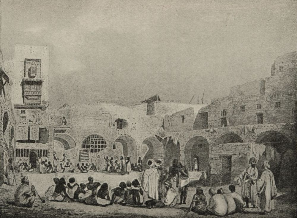 People sitting in the courtyard of a building. Line Drawing.